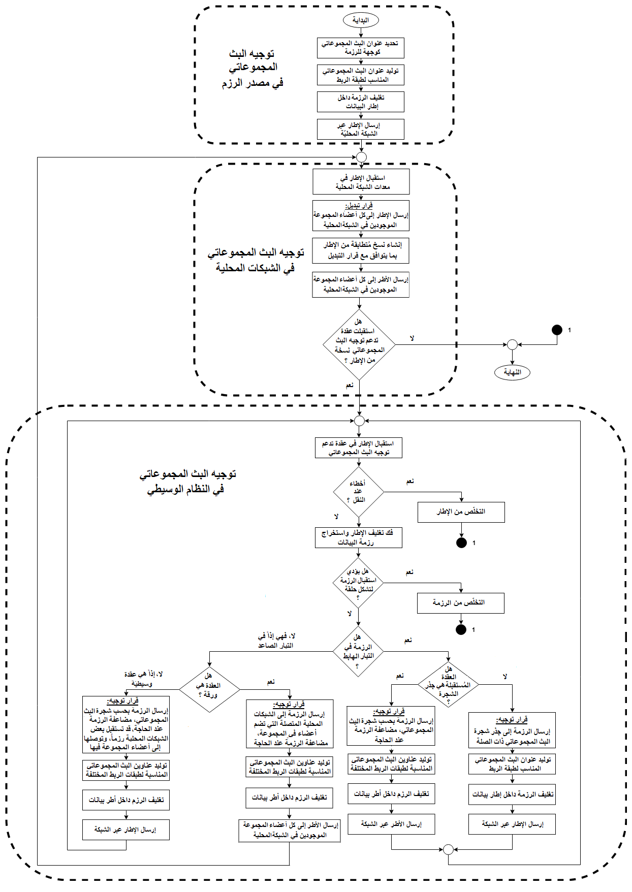 A flowchart for the routing of a multicast packet.